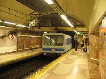 Train in Madrid Metro, type - Series 5000